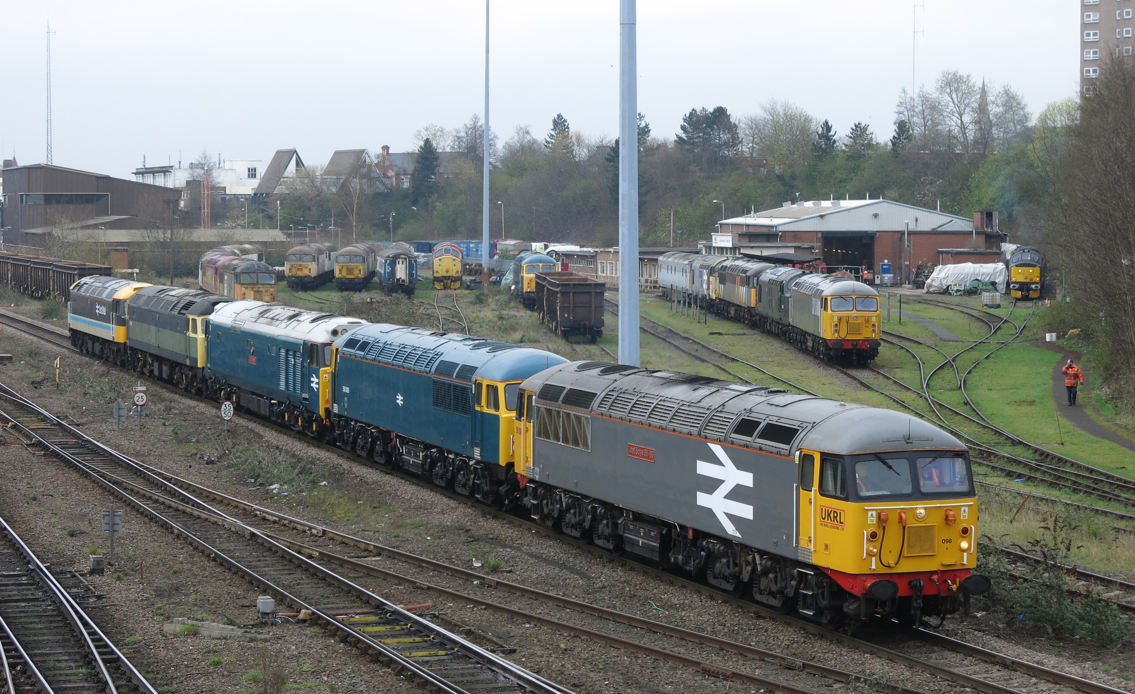 A convoy of diesel locomotives arrive back at UK Rail Leasing, Leicester, from a Nene Valley Railway diesel gala the previous weekend, 12th April 2016. The convoy was then shunted back into one of the empty tracks. The locomotives in the convoy are 56098 "Lost Boys 68-88", 56006, 50008 "Thunderer", 47192, and 47712.